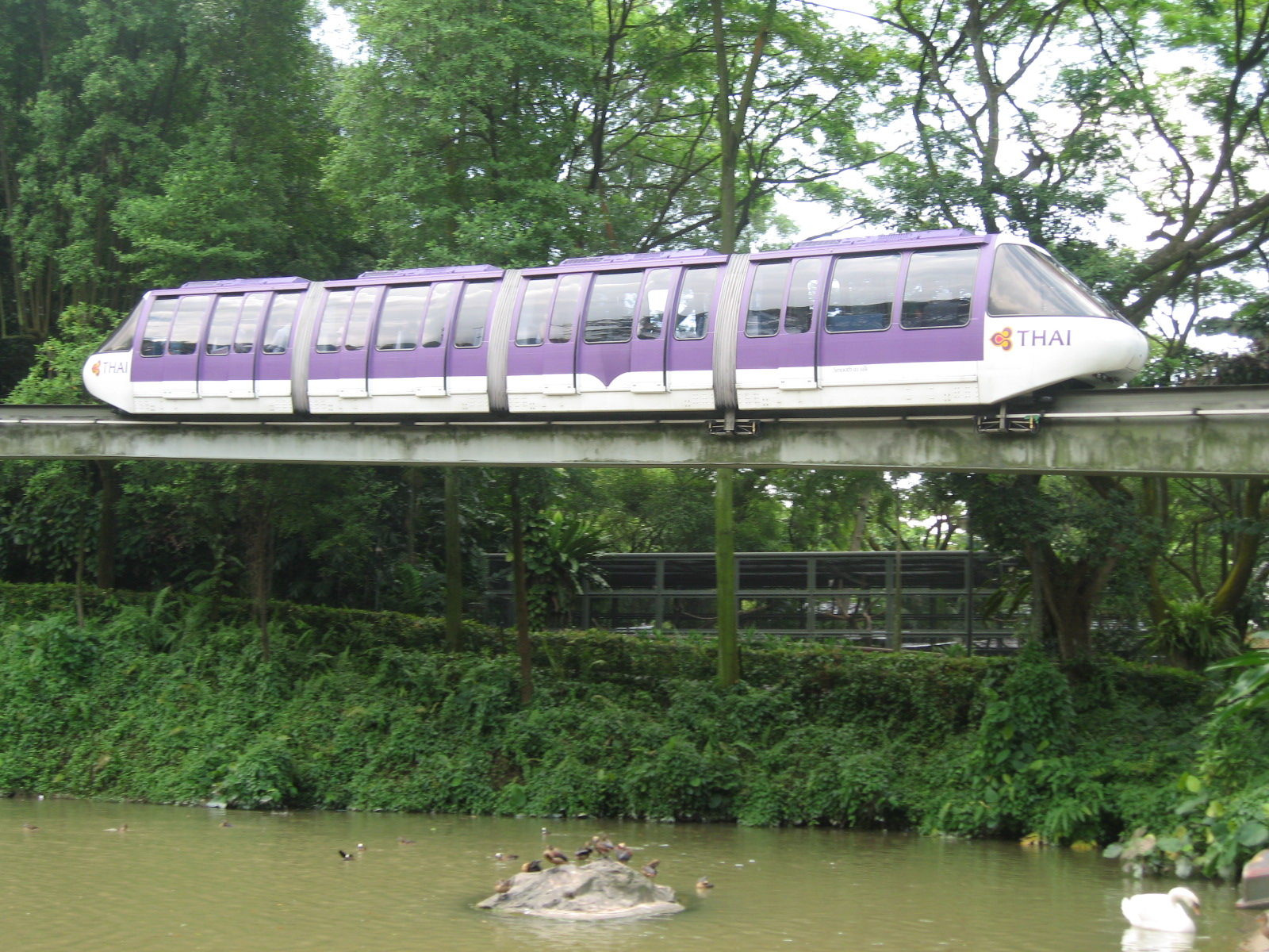 Jurong BirdPark. Taken by Terence Ong in November 2006.